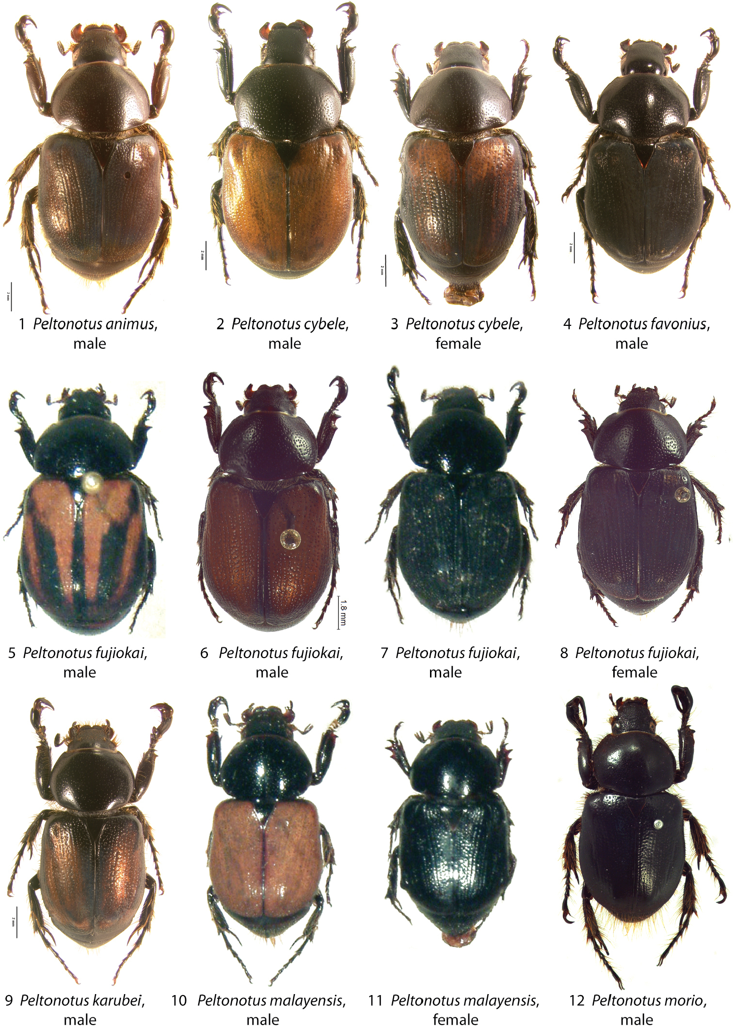 Peltonotus species dorsal habitus. 1 Peltonotus animus, male 2–3 Peltonotus cybele, male and female (respectively) 4 Peltonotus favonius, male 5–7 Peltonotus fujiokai, males (showing variation) 8 Peltonotus fujiokai, female 9 Peltonotus karubei, male 10–11 Peltonotus malayensis, male and female (respectively) 12 Peltonotus morio, male.